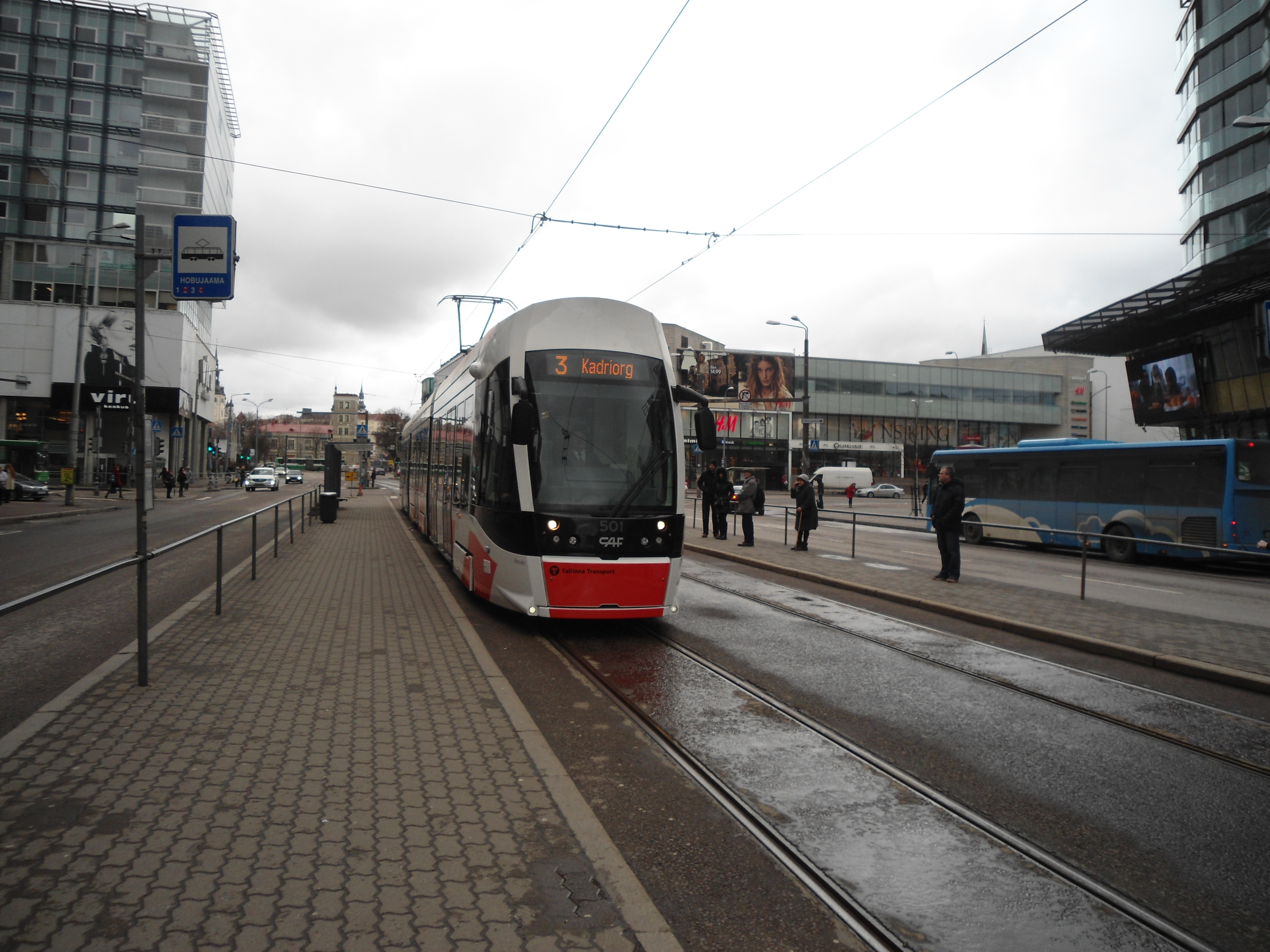 First Caf Urbos AXL in Tallinn with wagon number 501 (Moonika) on its first day of service.In the back, the reconstructed Tallinn Main Post Office building.